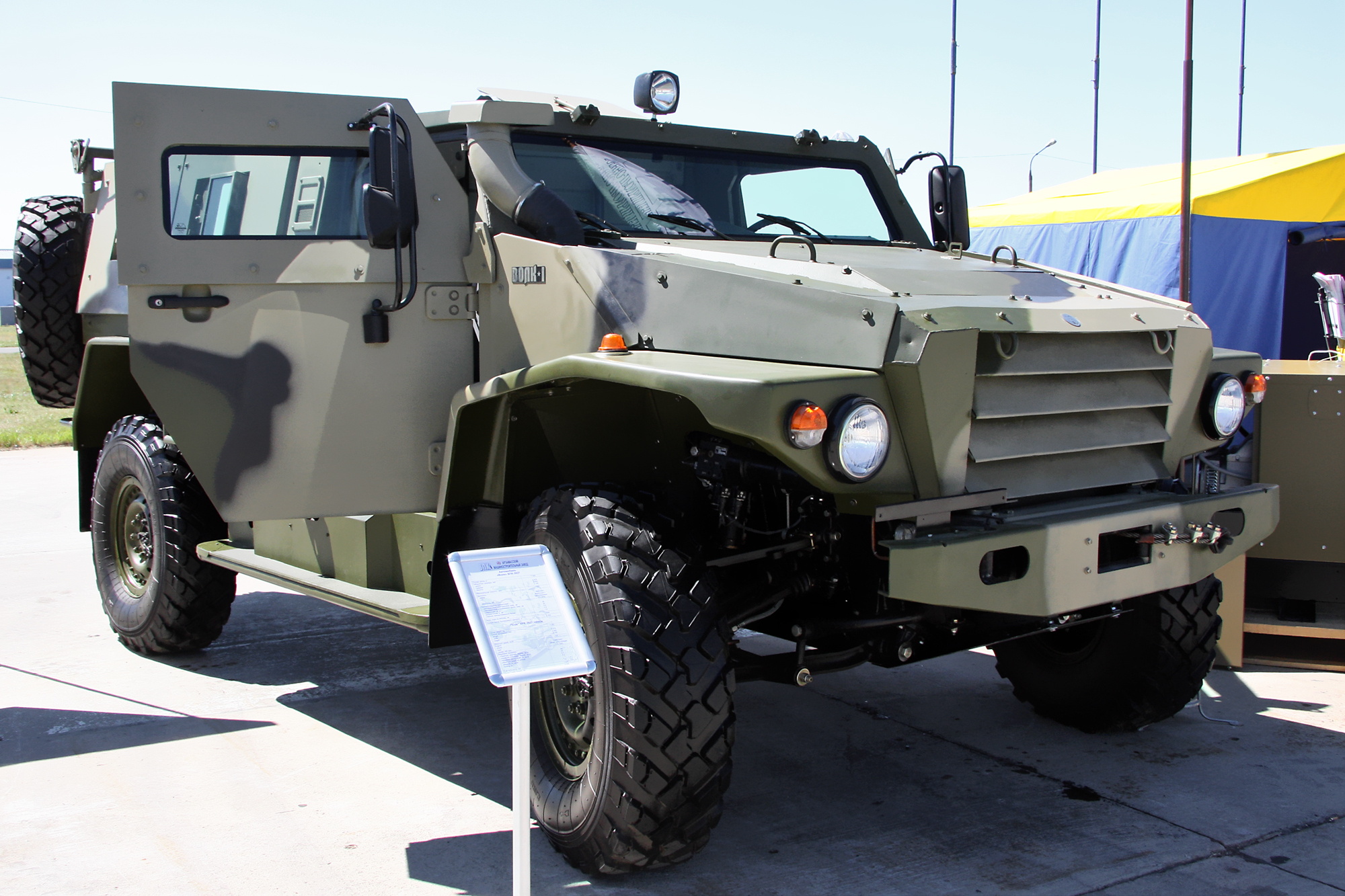 First presentation of VPK-3927 Volk family armored vehicles during Forum "Engineering Technologies 2010" (IDELF-2010)